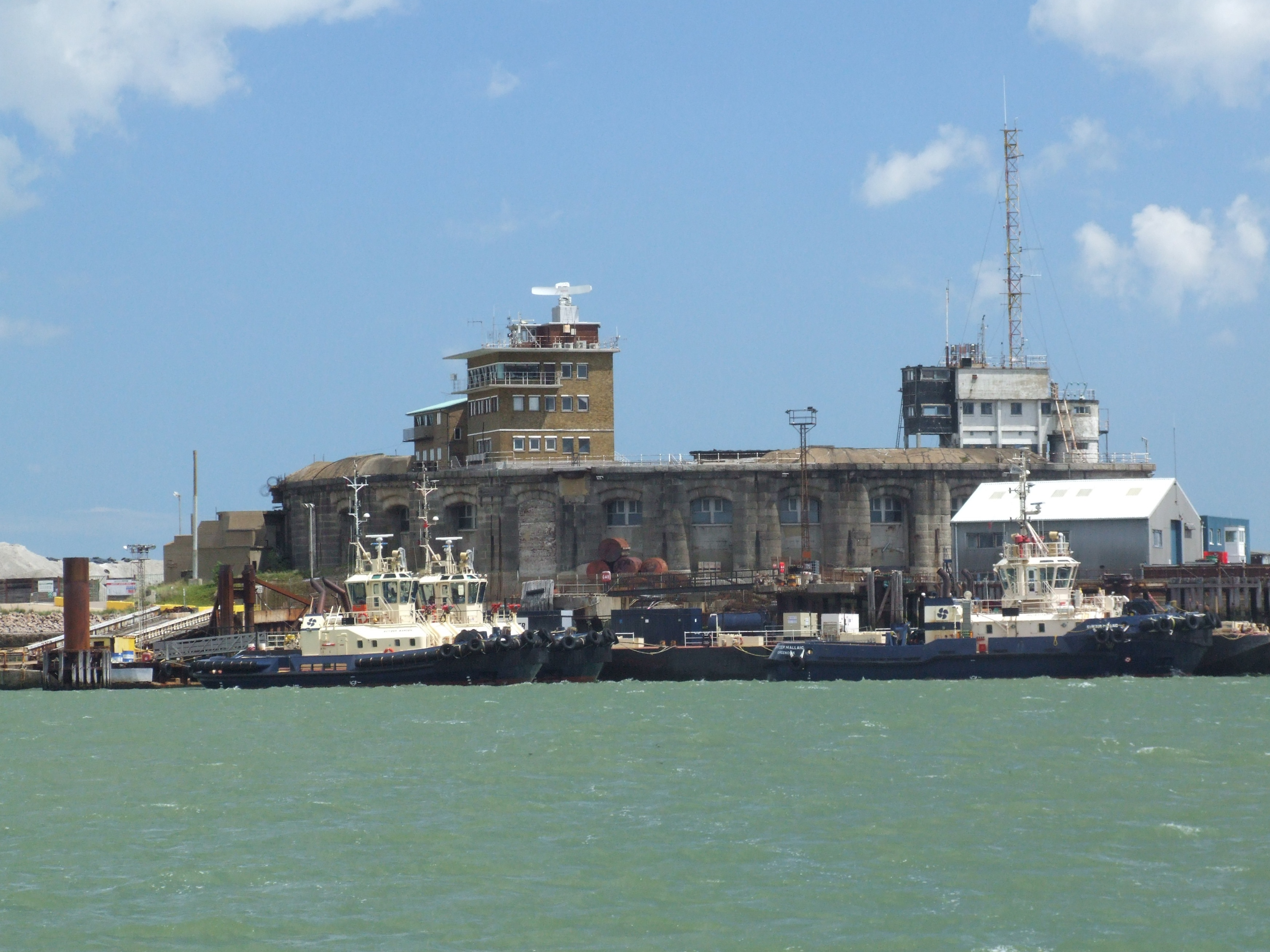 At Sheerness the River Medway joins the Thames estuary. Sheerness lies on the Isle of Sheppey This image was taken from aboard the PS Kingswear Castle. Garrison Point with Svitzer tugs in front